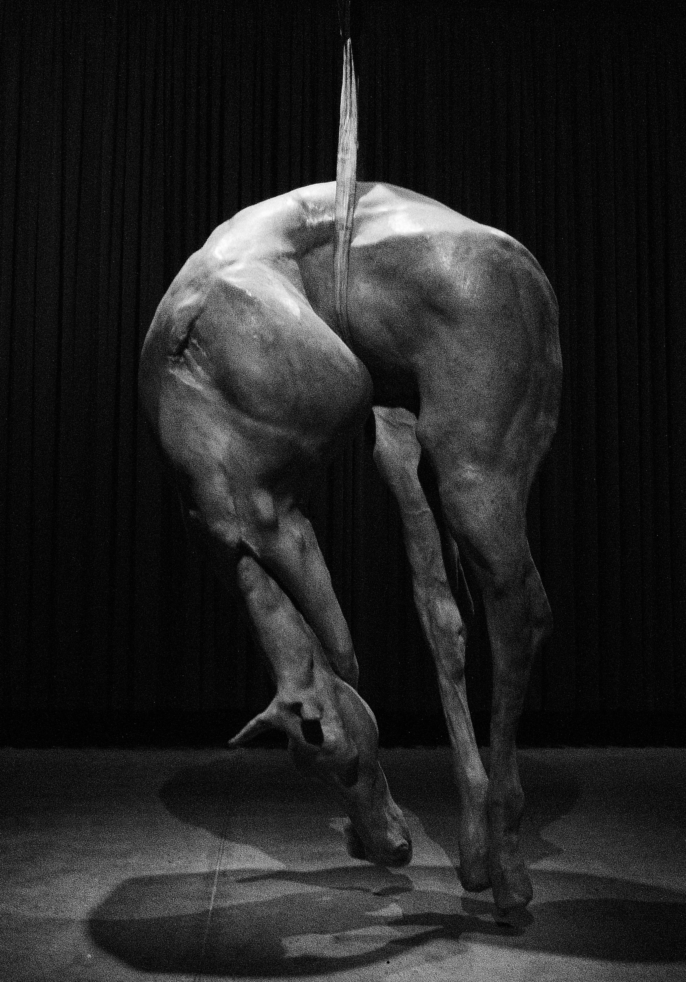 PXIII by Berlinde De Bruyckere, Museum of Old and New Art (MONA), Hobart, Tasmania, Australia